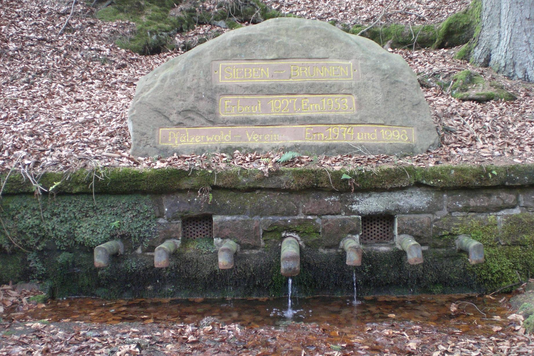 Ritterstein 188 - "Siebenbrunnen"